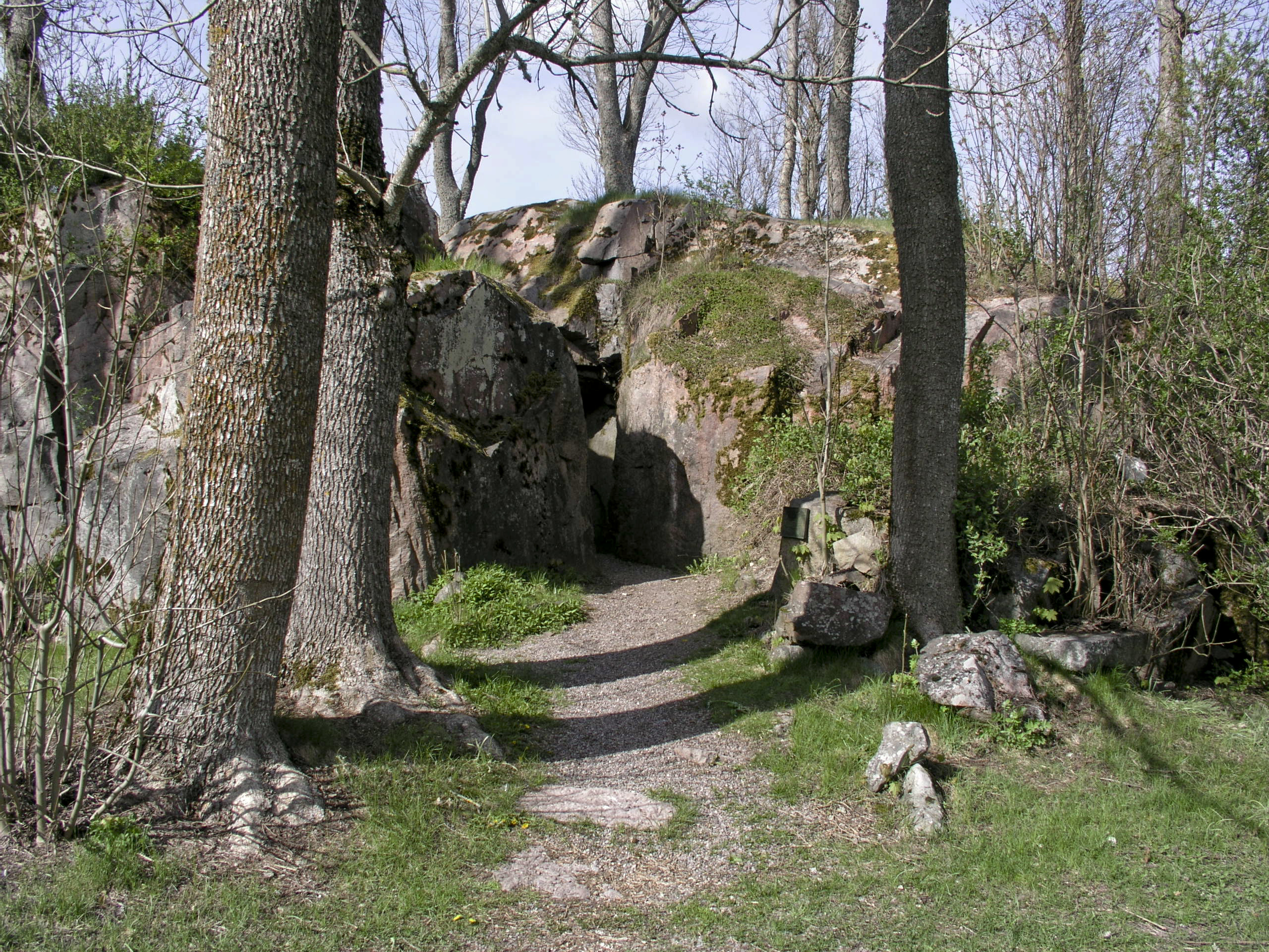 Birgitta's prayer cave. According to early local traditions Birgitta of Sweden had revelations in a cave. This is a newly constructed cave, attributed to Birgitta of Sweden. Finsta, Norrtälje, Sweden.